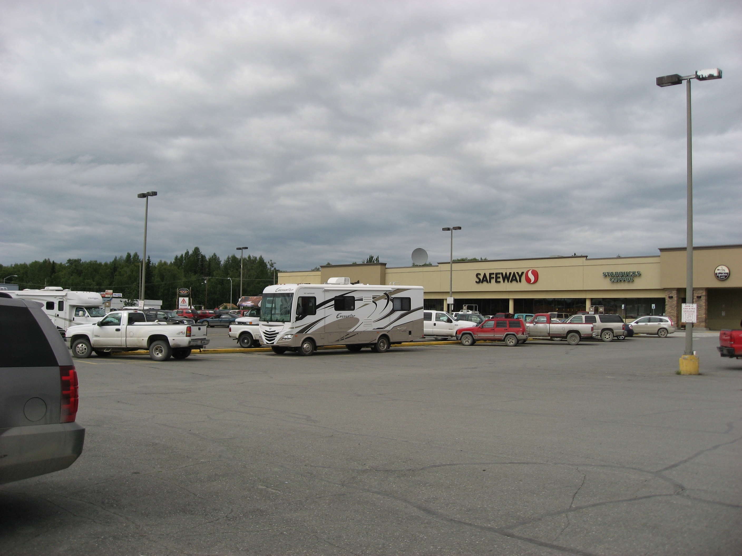 A couple RVs, plus assorted pickup trucks and SUVs, outside Safeway and Starbucks stores in an Alaska shopping center. (NOTE: The signs for Polaris Industries and its Victory Motorcycles subsidiary found on the lefthand side of the photo would indicate this to be the Safeway store in Soldotna.)